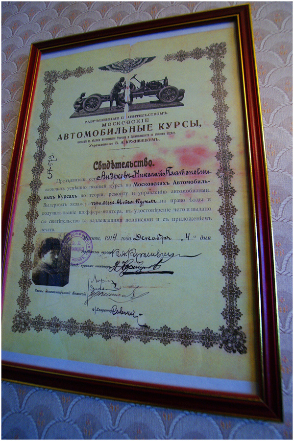 Moscow automobile courses certificate issed to Nikolay Andreyev